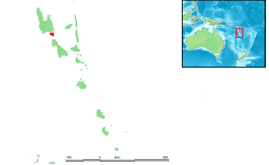 Island of Vanuatu - Malo.PNG